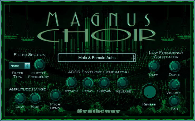 Magnus Choir VST, VST3 and Audio Unit Interface Screen Capture, running on VST host application